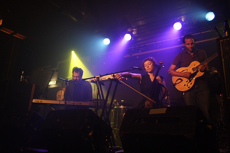 Twin Thousands live in Nottingham, UK.